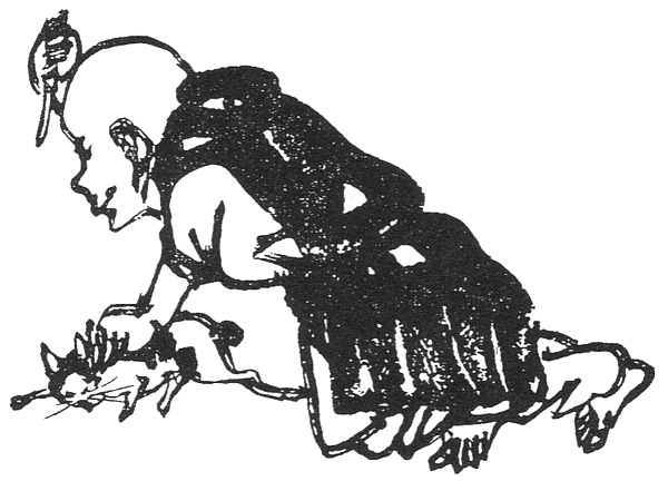 "Bakeneko" (化け猫, a shapeshifting cat) from the Shōzan chomon-kishuū (想山著聞奇集, the Japanese book)